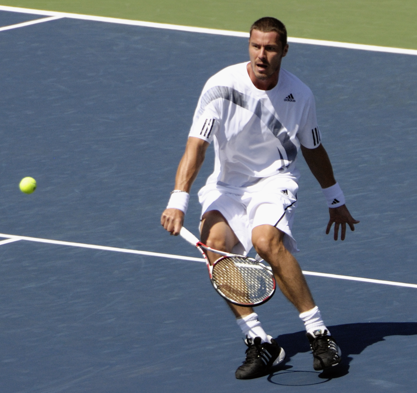 Marat Safin at the 2009 US Open